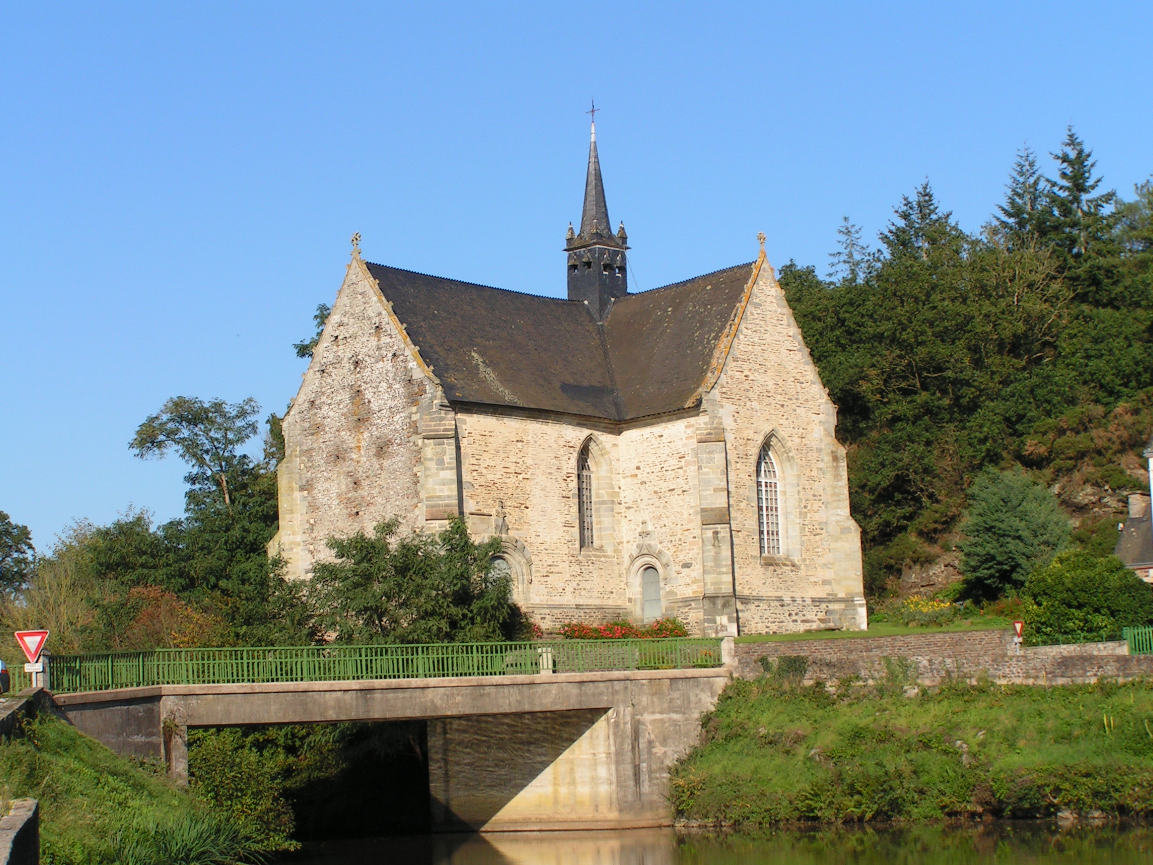 Bonne Encontre Chapel, 16th Century. Rohan region, Brittany, France.